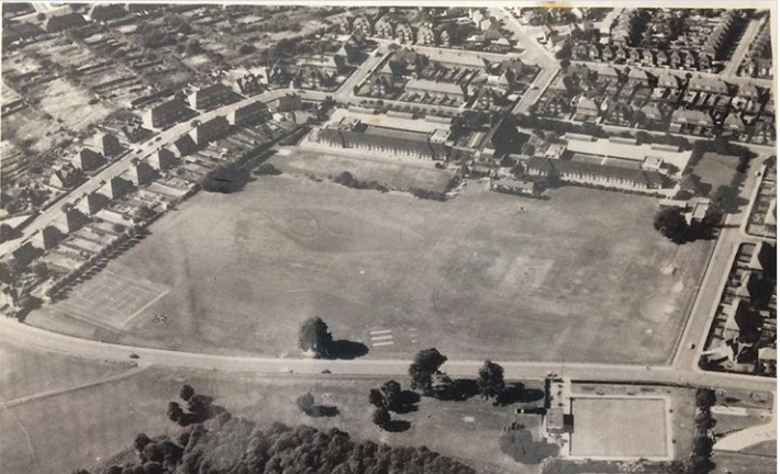 Jesse Boot School, Birds Eye Shot.